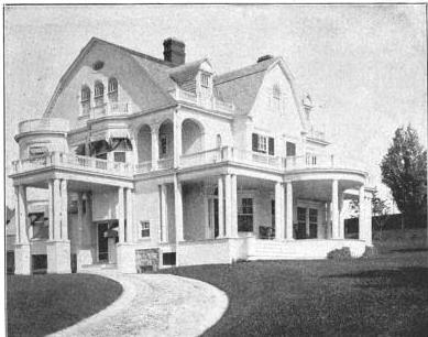 Frank J Cobbs House Cadillac MI c1900 NRHP# 88000376